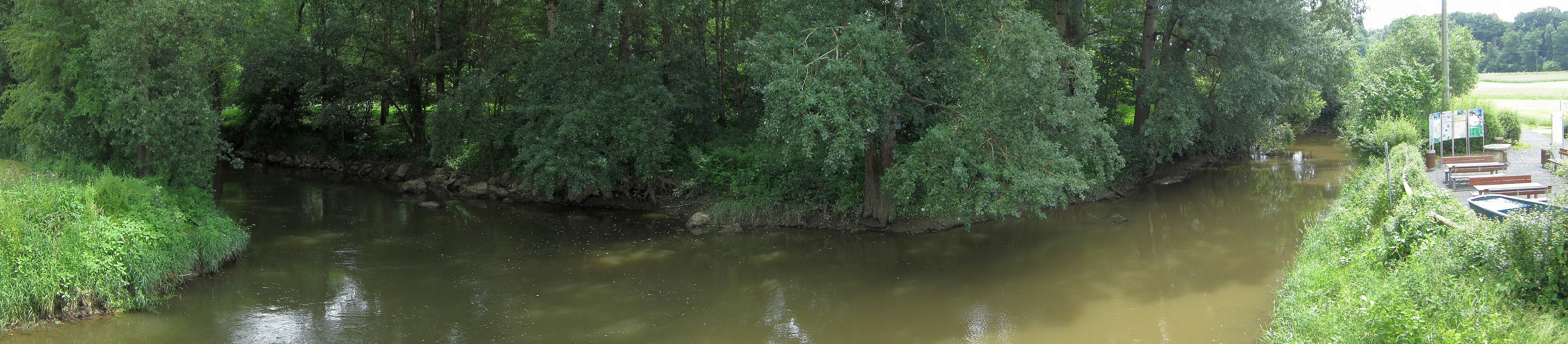 Junction of Roter Main and Weißer Main near kulmbach